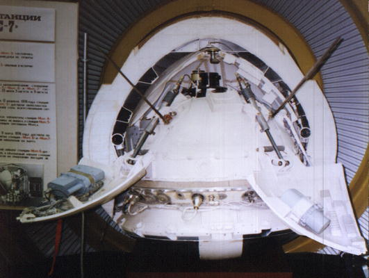 A cut-away view of the Mars 3 Lander at the NPO Lavochkin Museum.